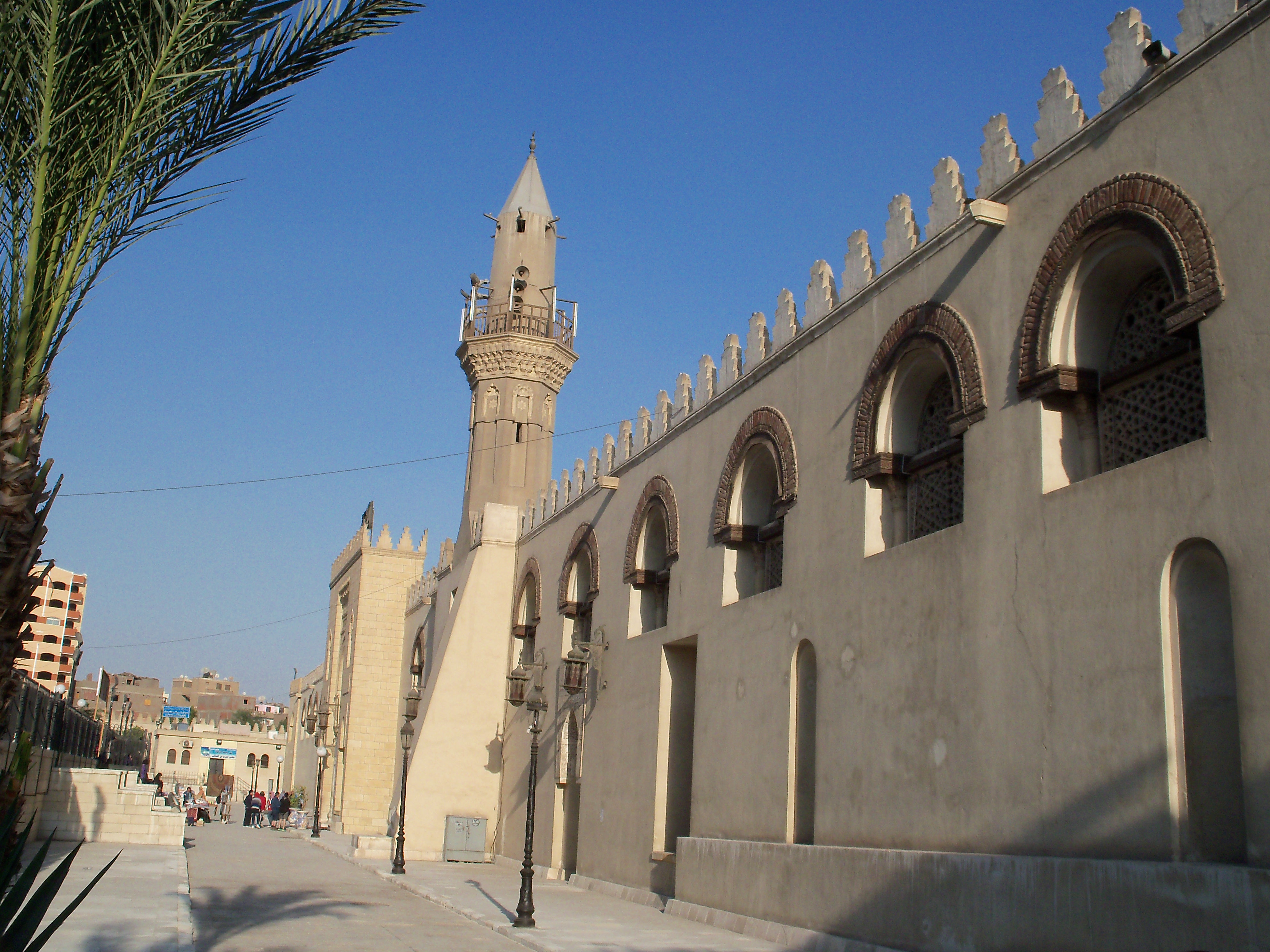 December 2011 photowalk in Cairo